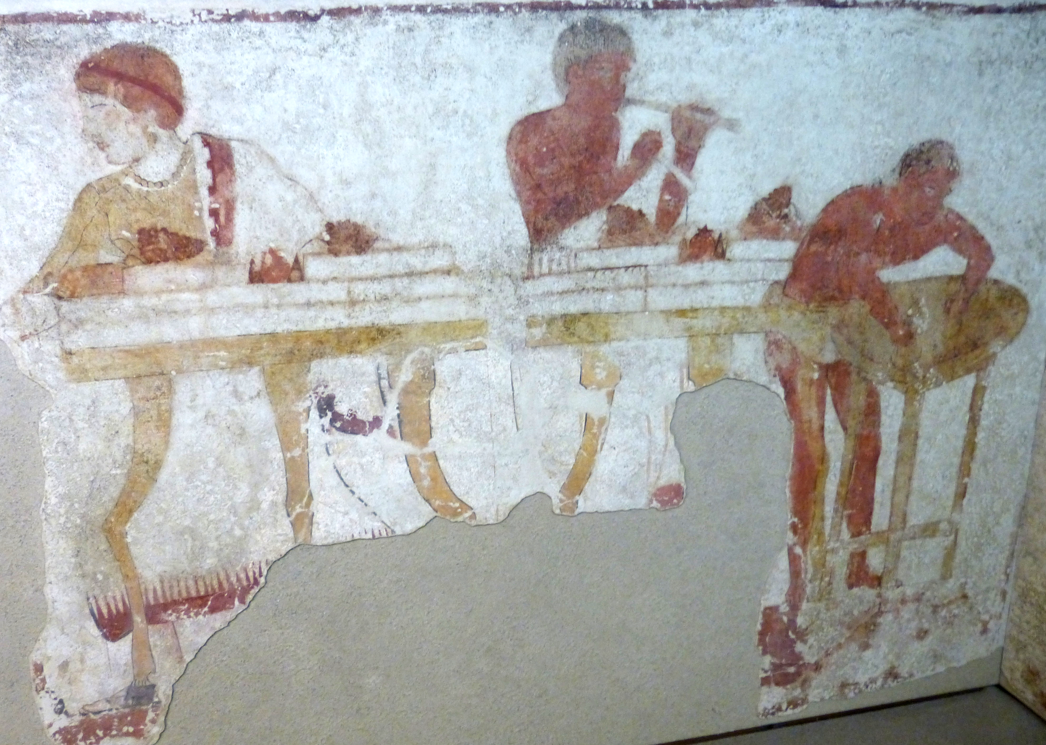 Museo Archeologico Nazionale (Orvieto). Tomba Golini: Banqueting scene ( 4th century BC.)